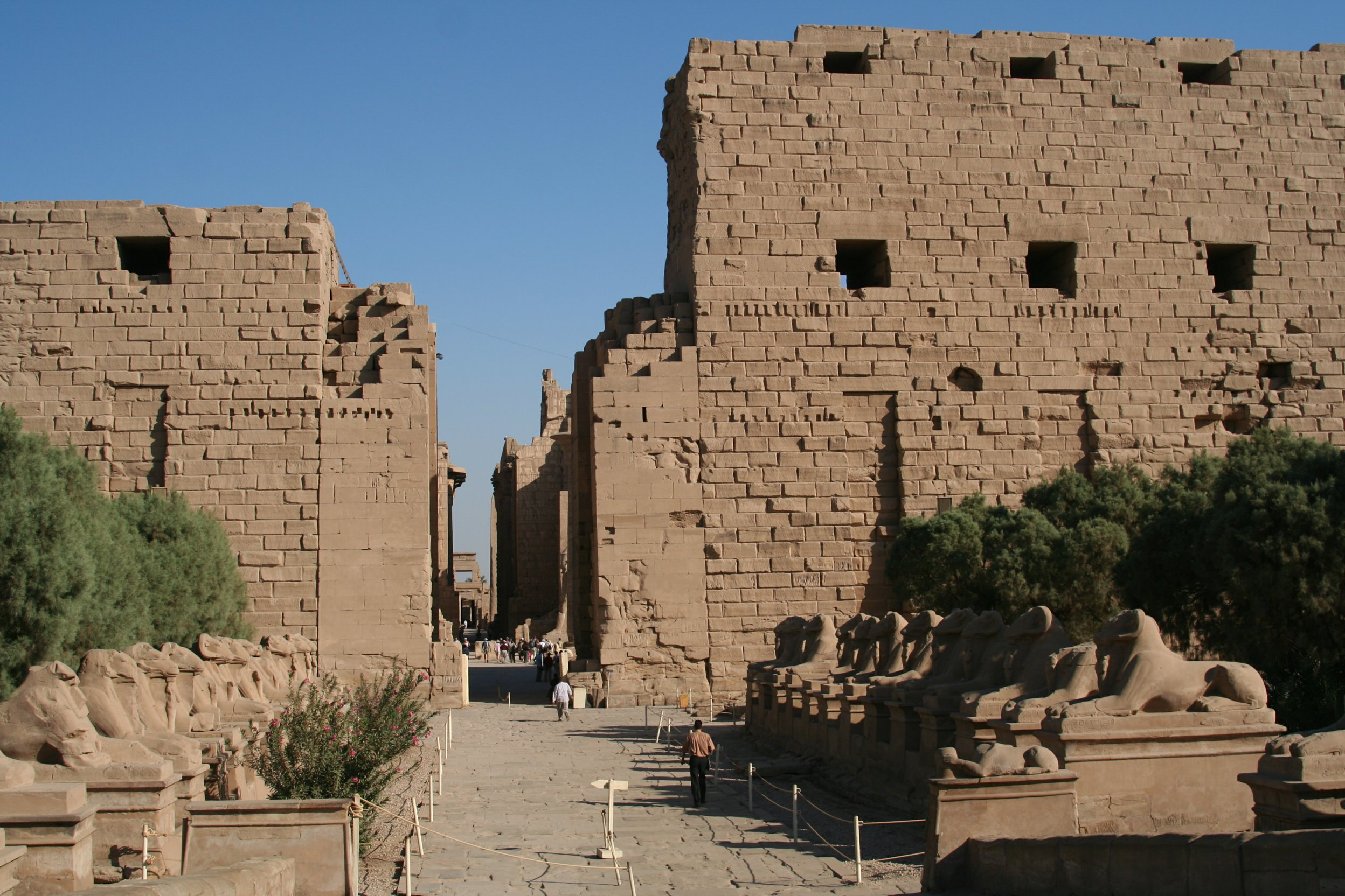 First pylon and avenue of sphinxes - Temple of Karnak